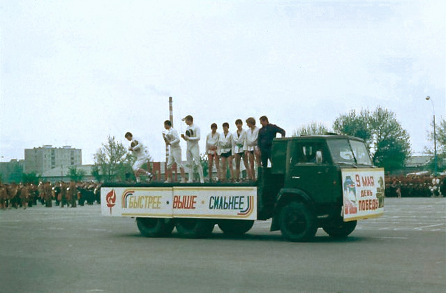 9th May celebration in 1984